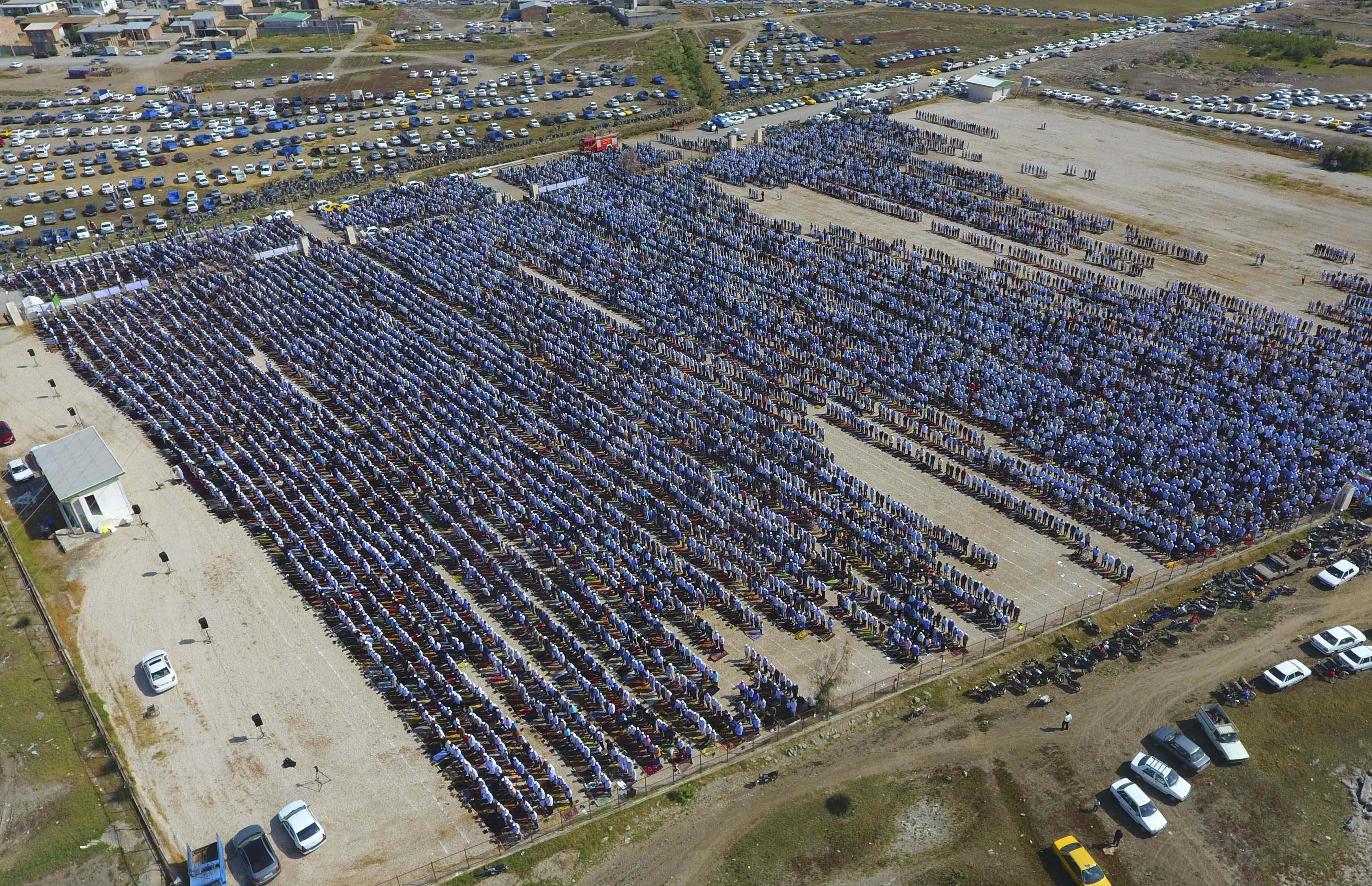 Eid al-Fitr prayer, Bandar Torkaman - 26 June 2017 main album